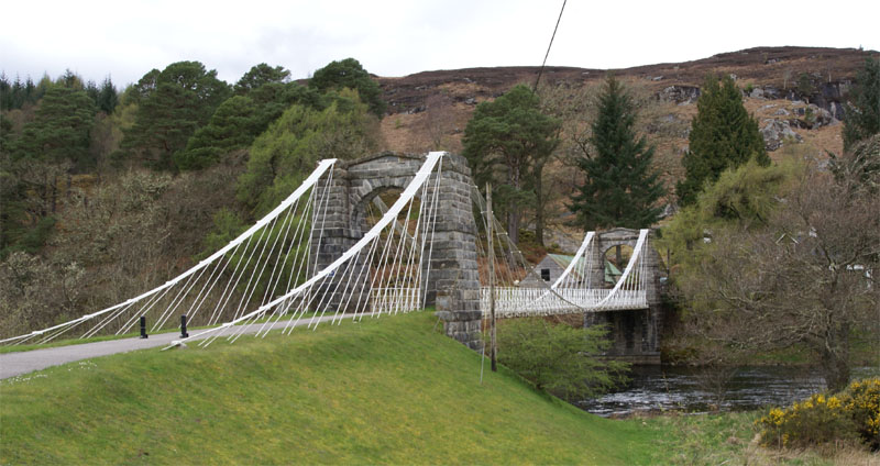 Bridge of Oich (Scotland)